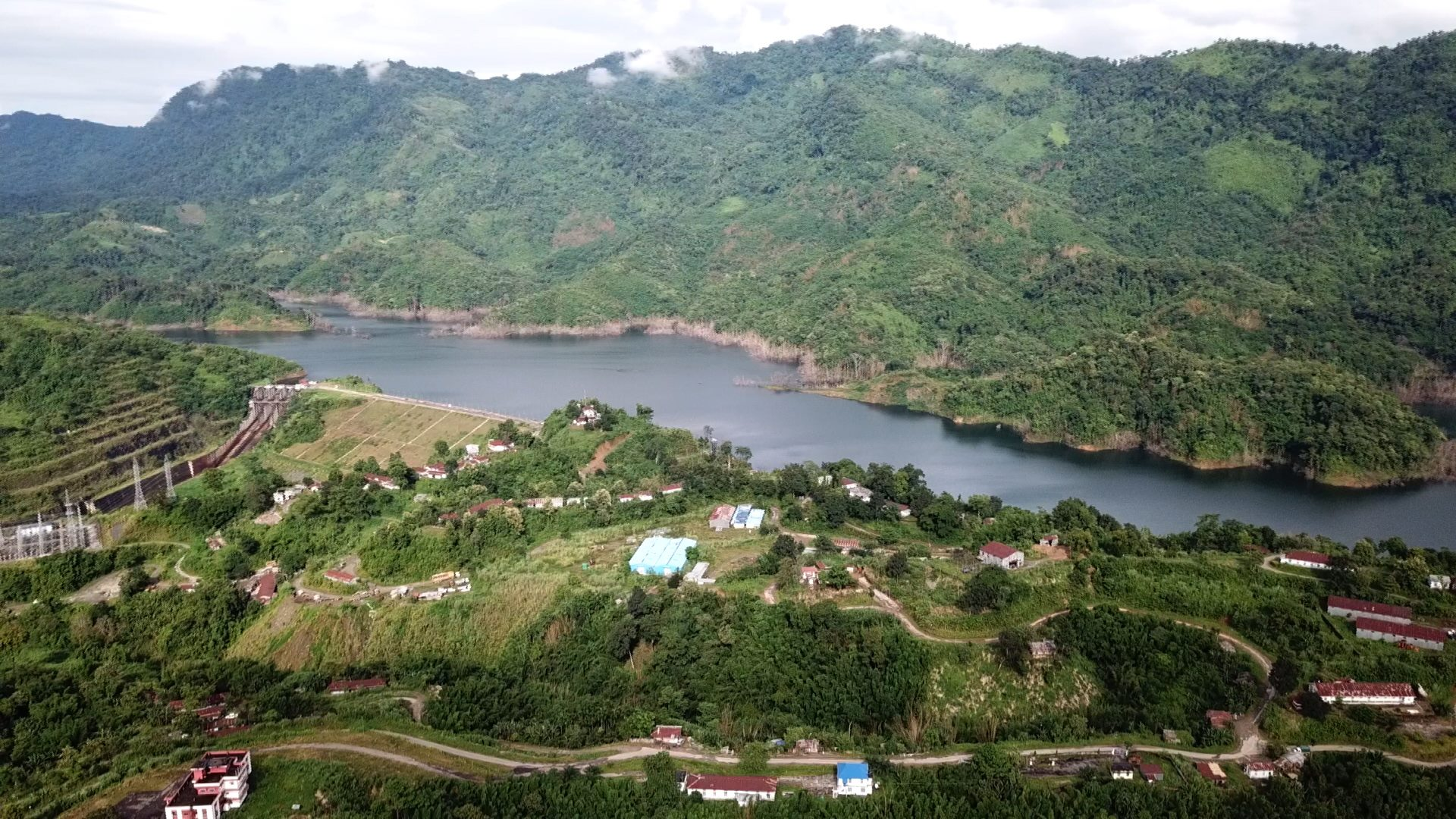 Tuirial Dam Aerial view